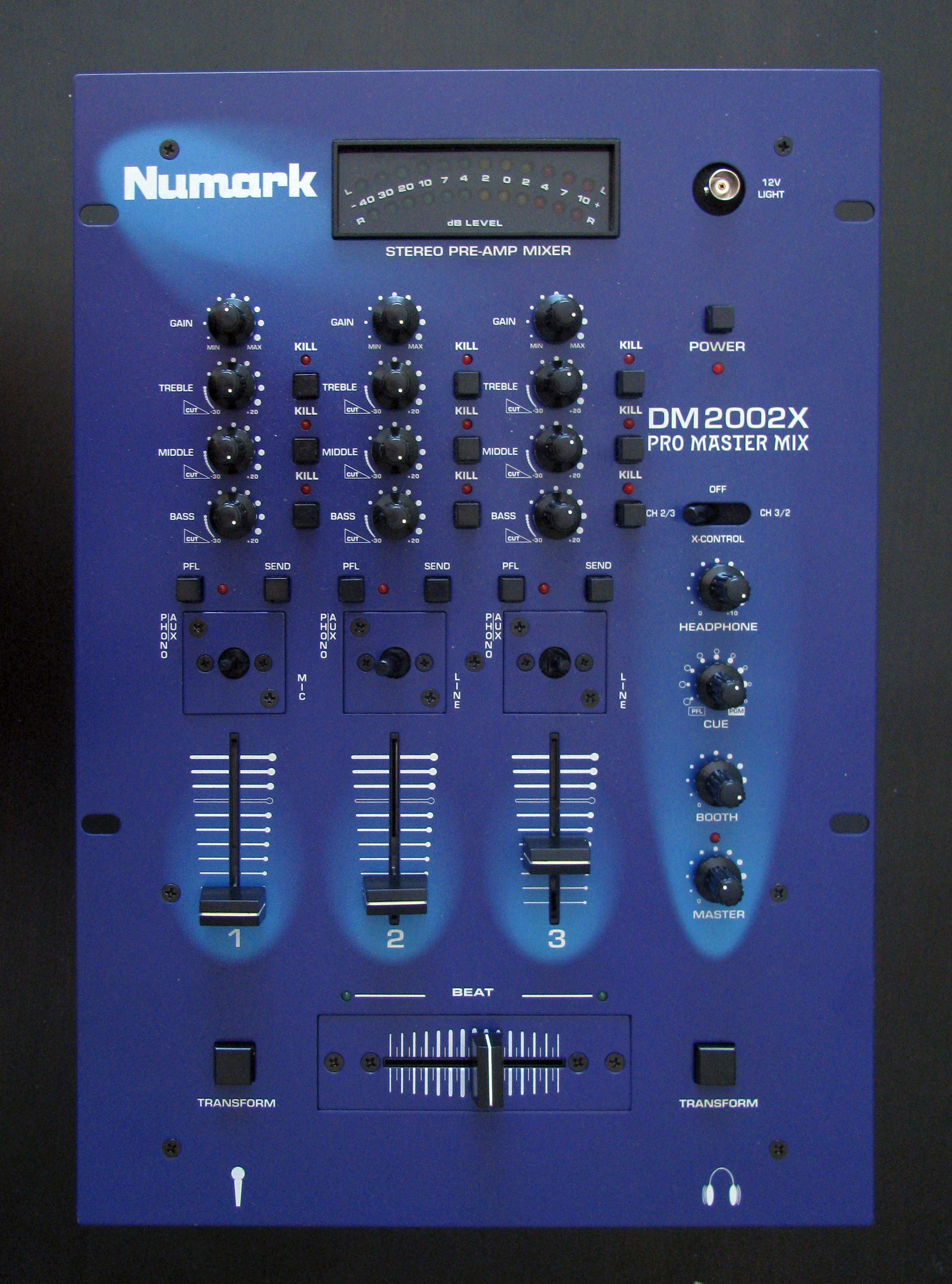 A device known as a DJ Mixer, used to control audio, and fade between songs.